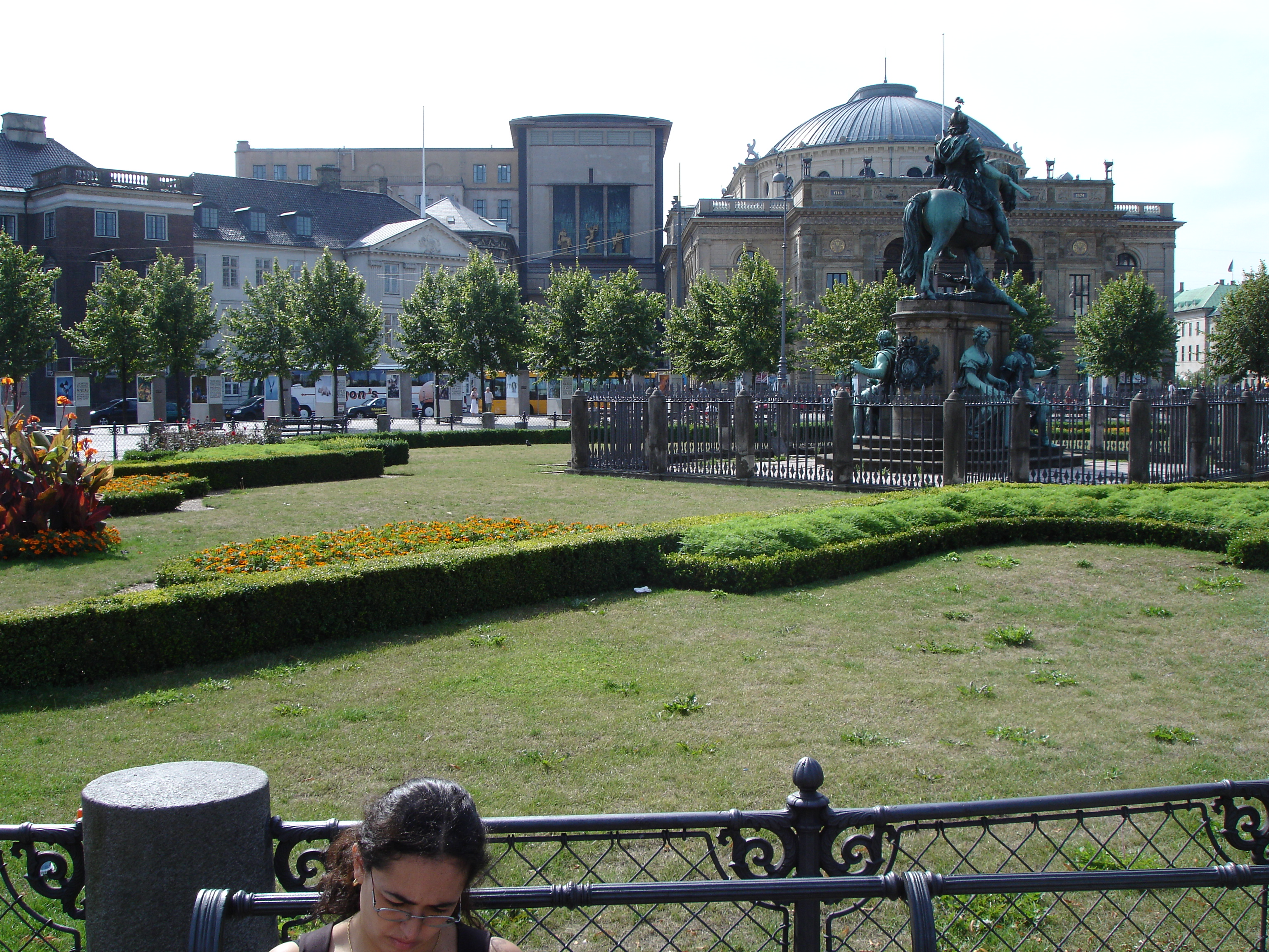 Stærekassen and the Royal Danish Theatre at Kongens Nytorv in Copenhagen, Denmark